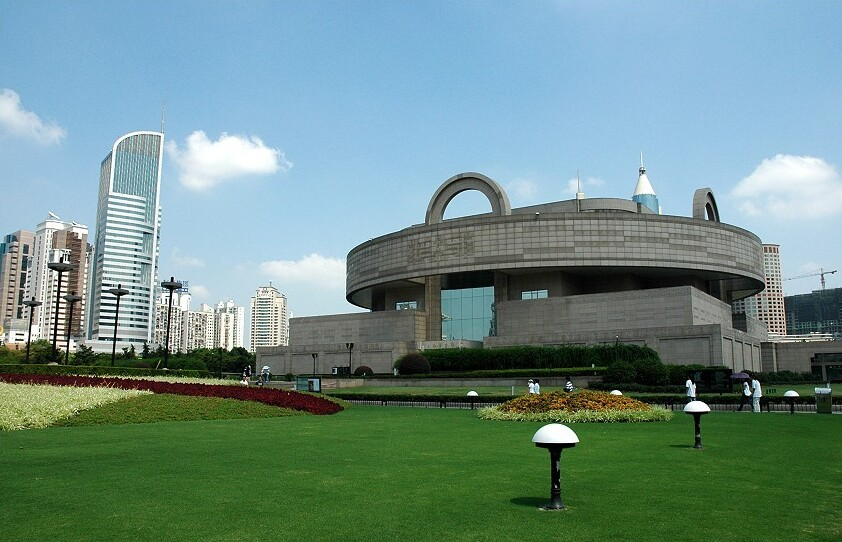 Exterior of the Shanghai Museum